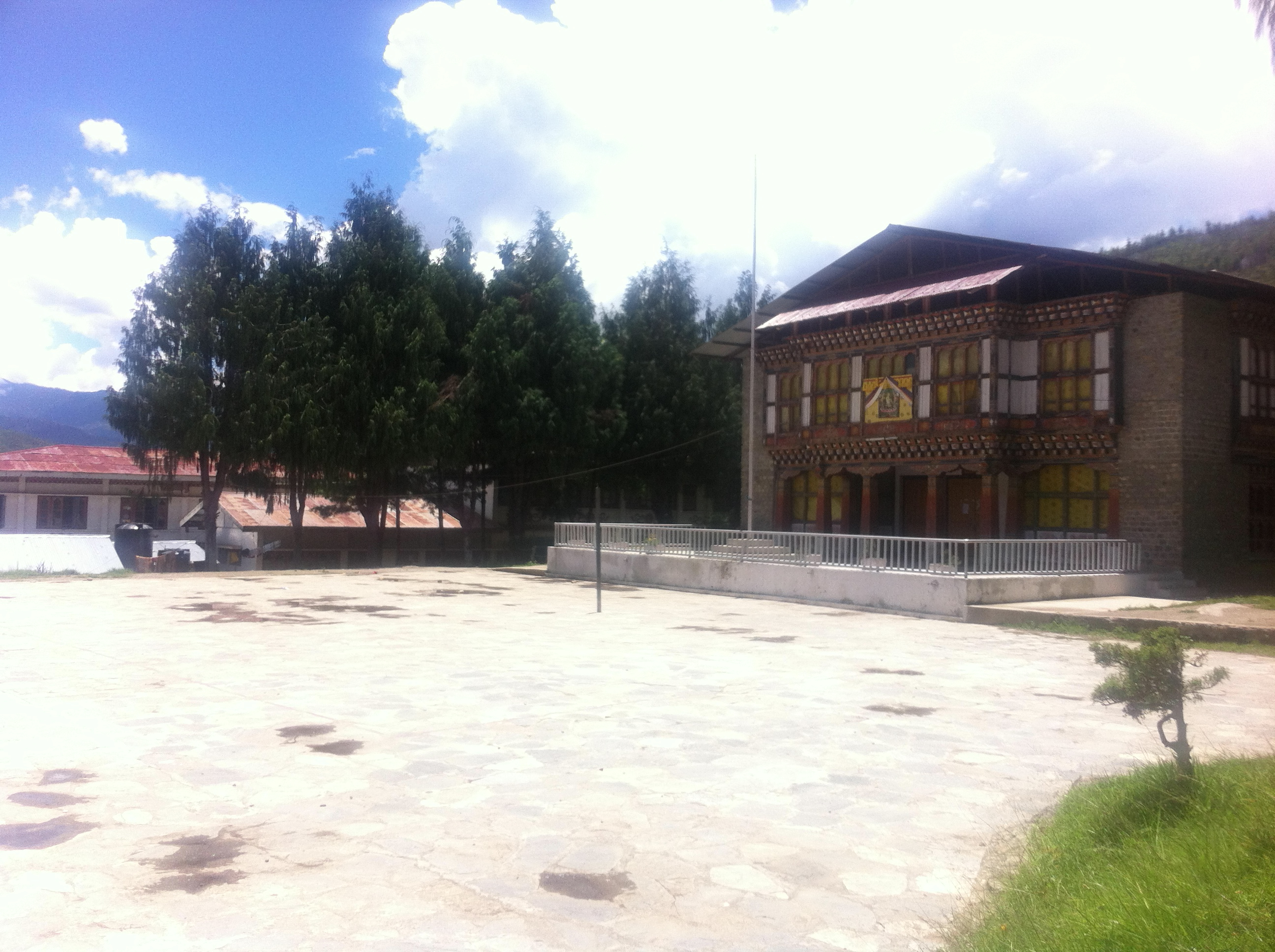 The school's multi-purpose hall and the assembly stage.